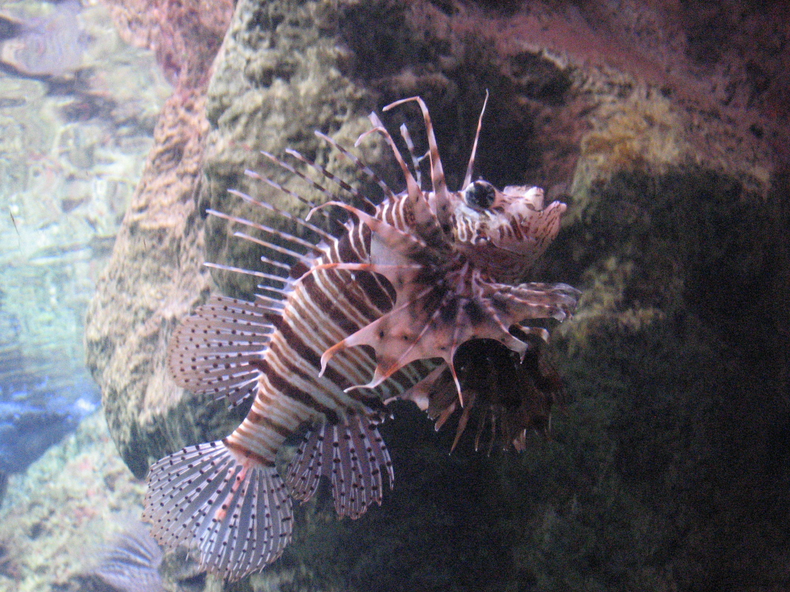 Aquarium Barcelona